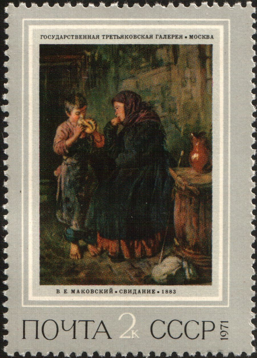 USSR stamp: "Meeting", by Vladimir Makovsky. Series: Russian Painting from 18th- to Early 20th-century. Centenary of Peredvizhniki